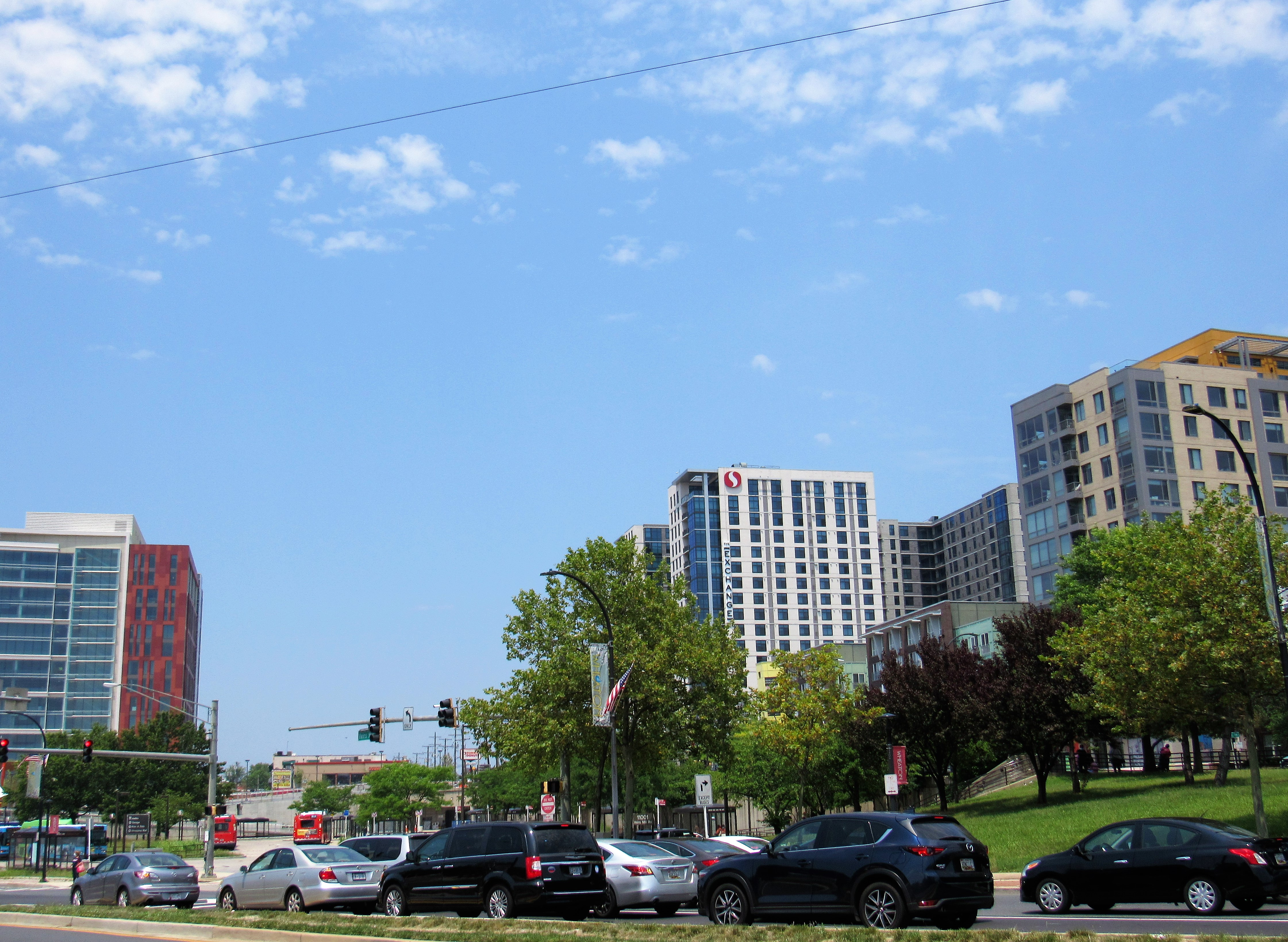 Skyline of Wheaton, Maryland from Veirs Mill Road.